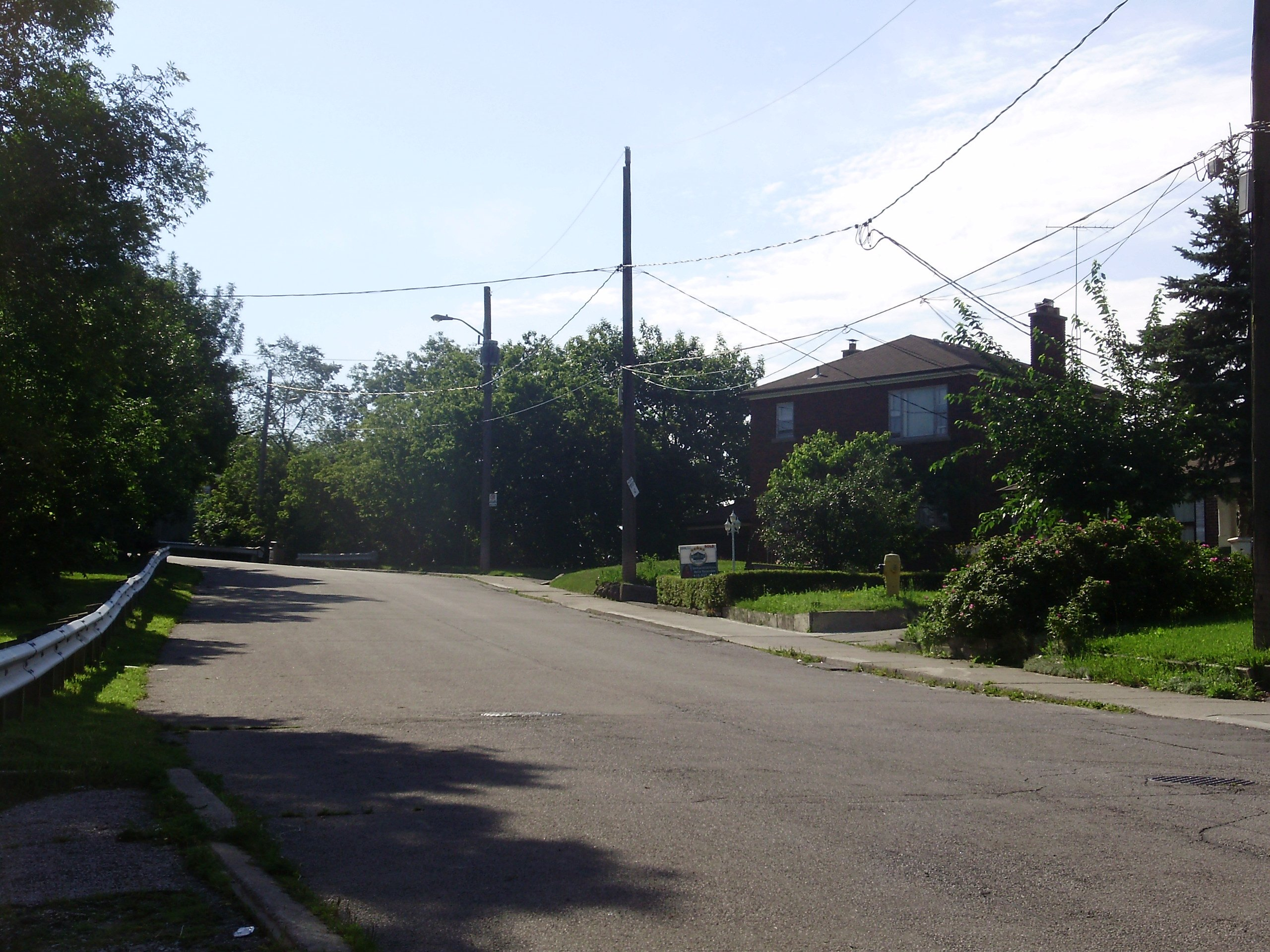 Looking southeast along Venn Crescent, just south of Eglinton Avenue West, in the neighbourhood of Keelesdale-Eglinton West in Toronto, Canada.